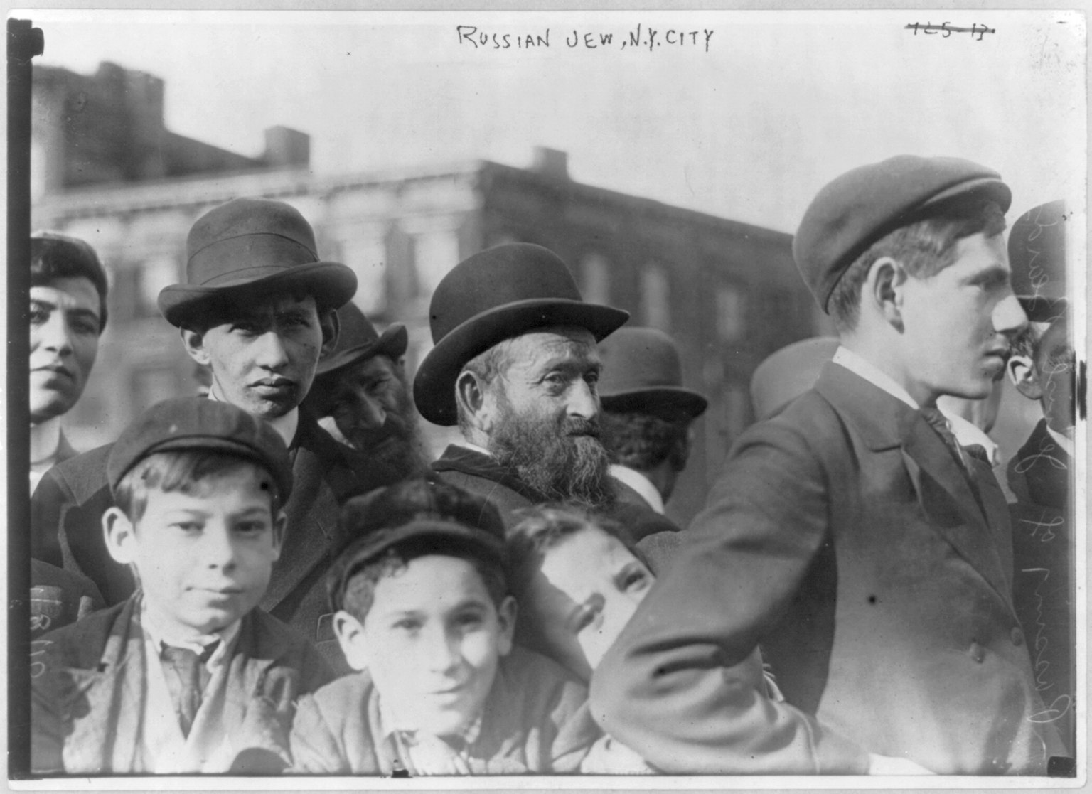 Title: Russian Jew, N.Y. City Abstract/medium: 1 photographic print.